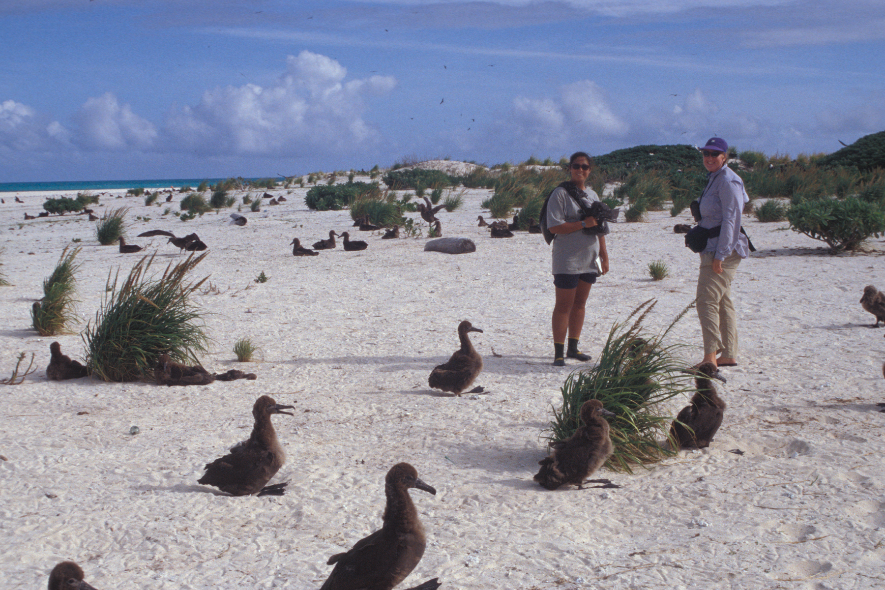 Eragrostis variabilis (with blackfoot albatross with Kim and NMFS crew). Location: Lisianski, On beach